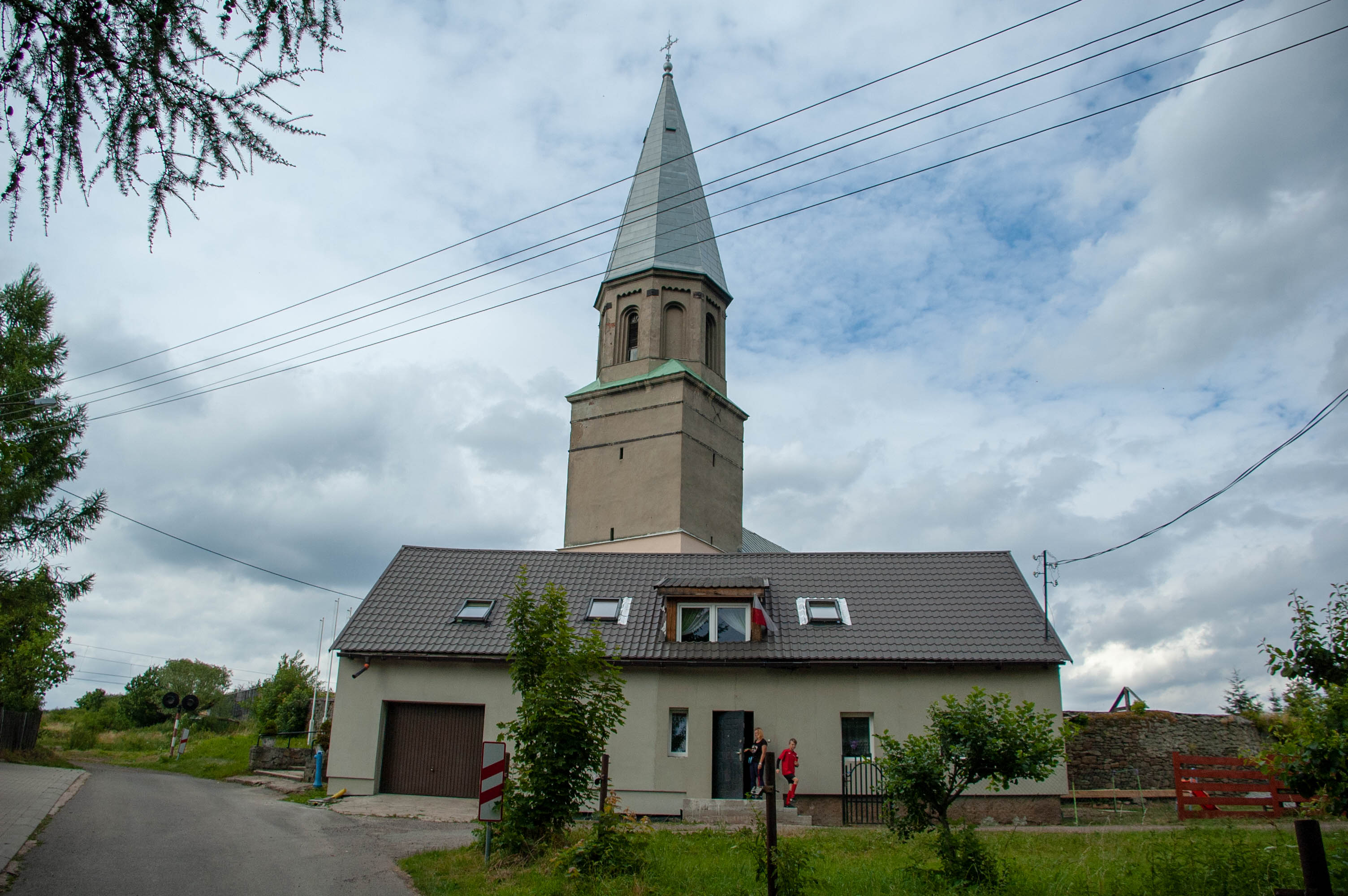 This photograph was created as a part of Wikiexpedition Lower Silesia, a project supported by Wikimedia Poland grant.